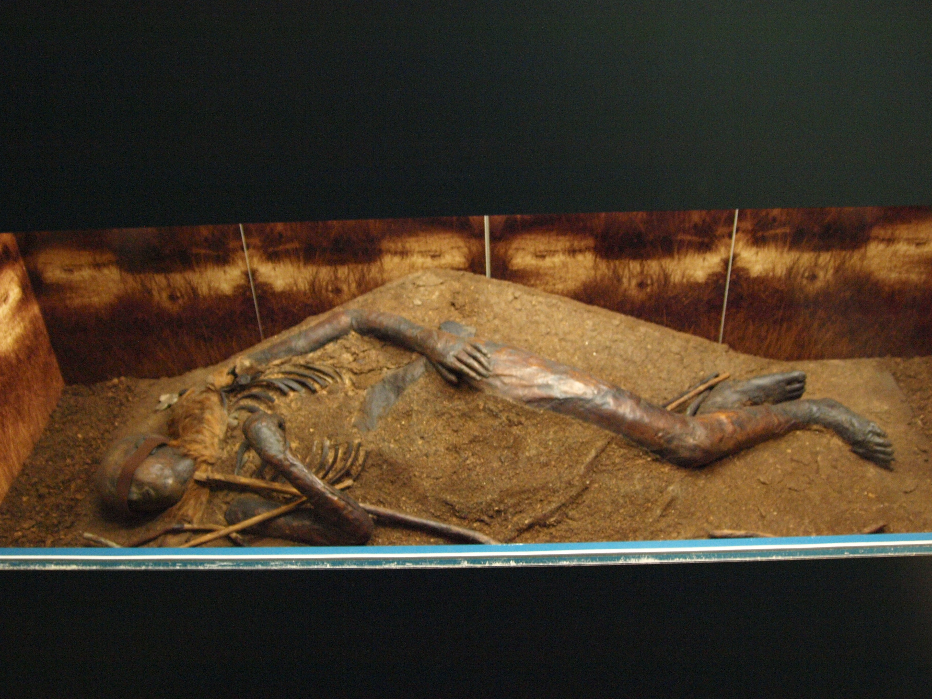 The bog body Windeby I a 16 year old boy on display at Archäologisches Landesmuseum Gottorf Castle, Schleswig Germany. Found in 1952 in the Domslandmoor near Windeby. C14 dated beween 41 and 118 AD.